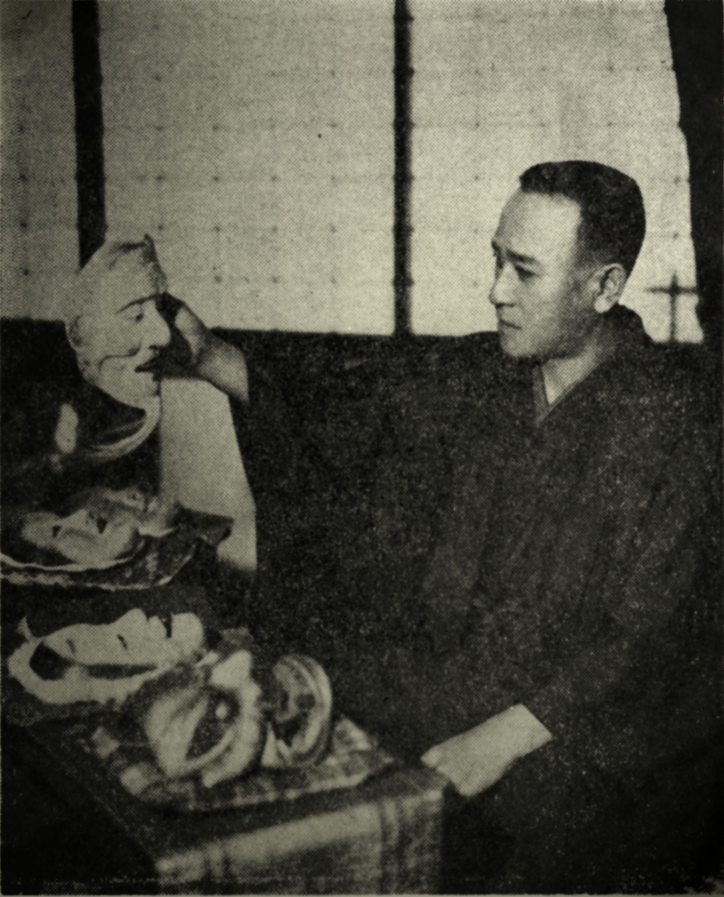 Japanese No actor KANZE Sakon(1895 - 1939) and No masks